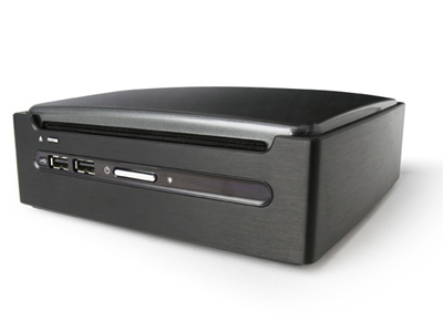 AOpen XC mini MP945